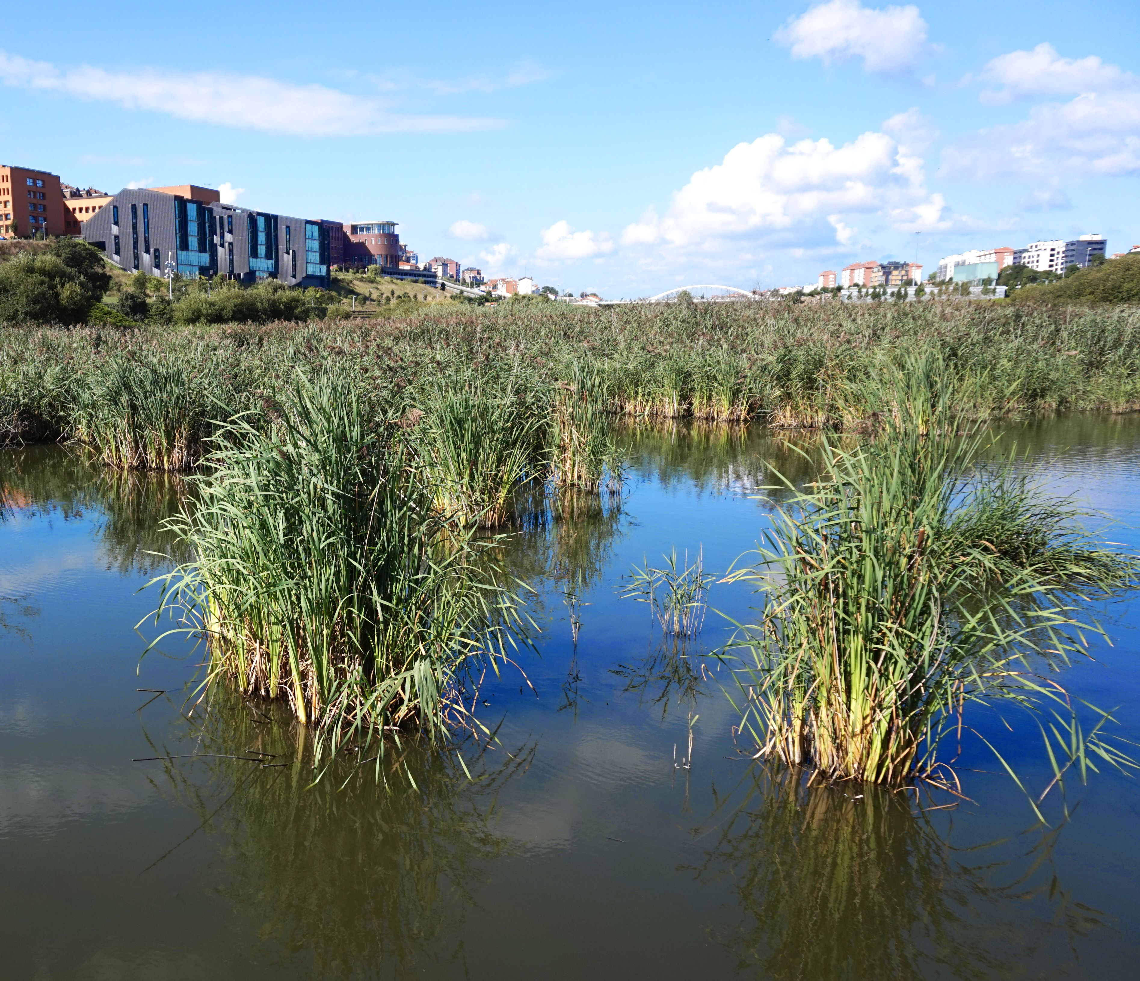 Parque de las Llamas in Santander, Spain.This photograph was taken with a Sony ILCE-5000